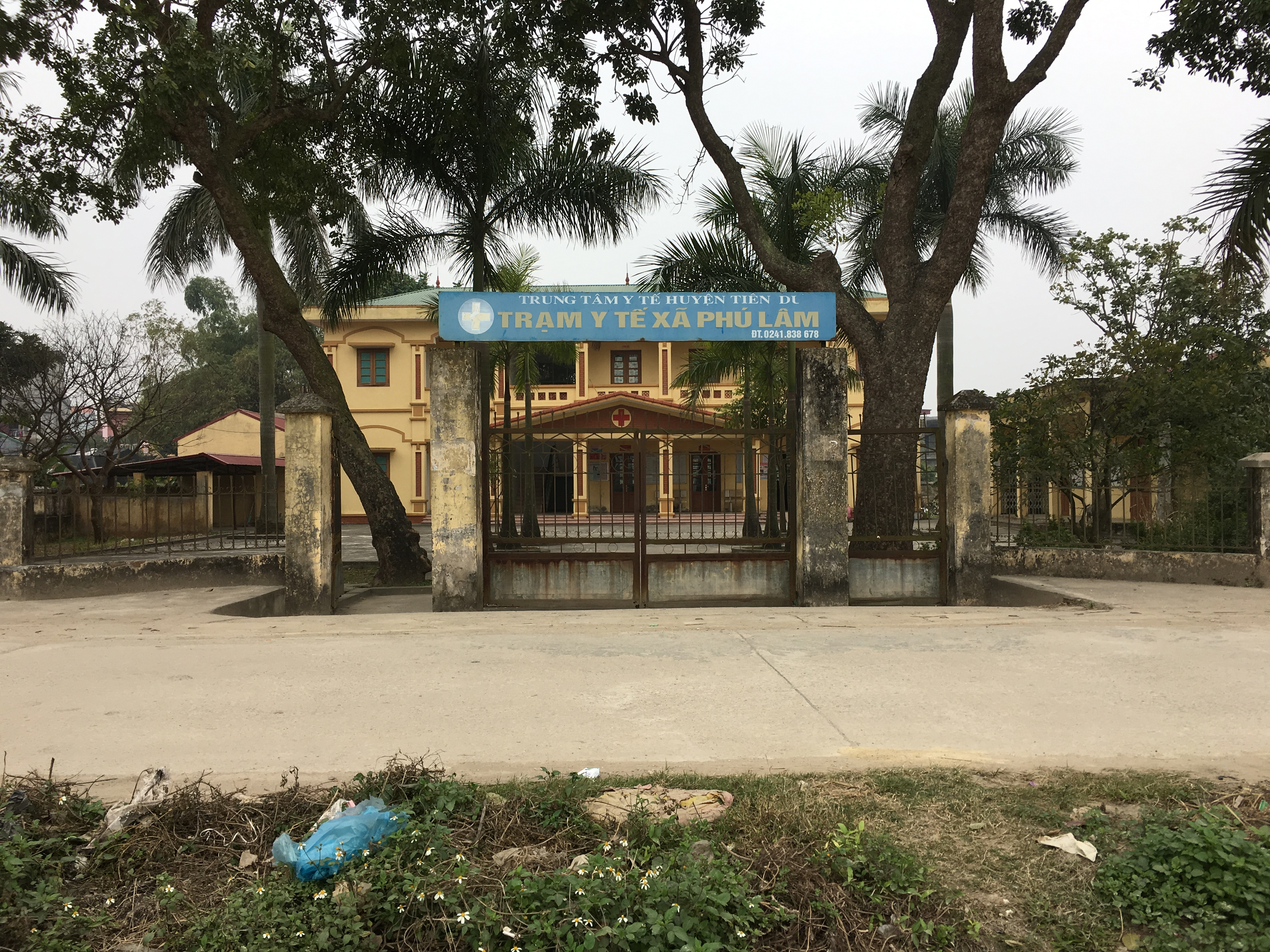 Phu Lam commune health station in 2018